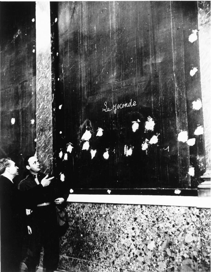 PARIS - SEPTEMBER 12, 1944: Monuments Man James Rorimer (right) and Ecole du Louvre director Robert Rey, stand before the empty wall where the Mona Lisa (La Joconde) once hung before its precautionary evacuation from the Louvre in 1939. (Photo credit: National Archives and Records Administration, College Park, MD)